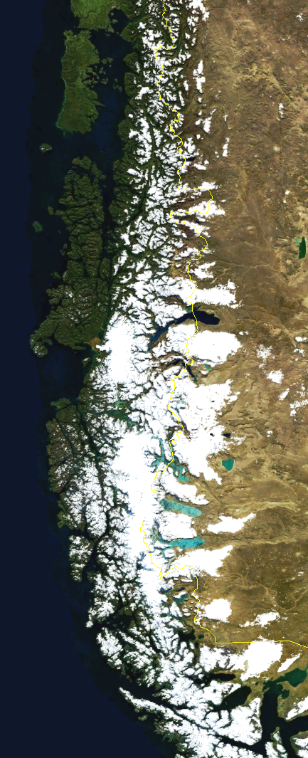 Satellite picture of Patagonia Mountain Range, Argentina and Chile